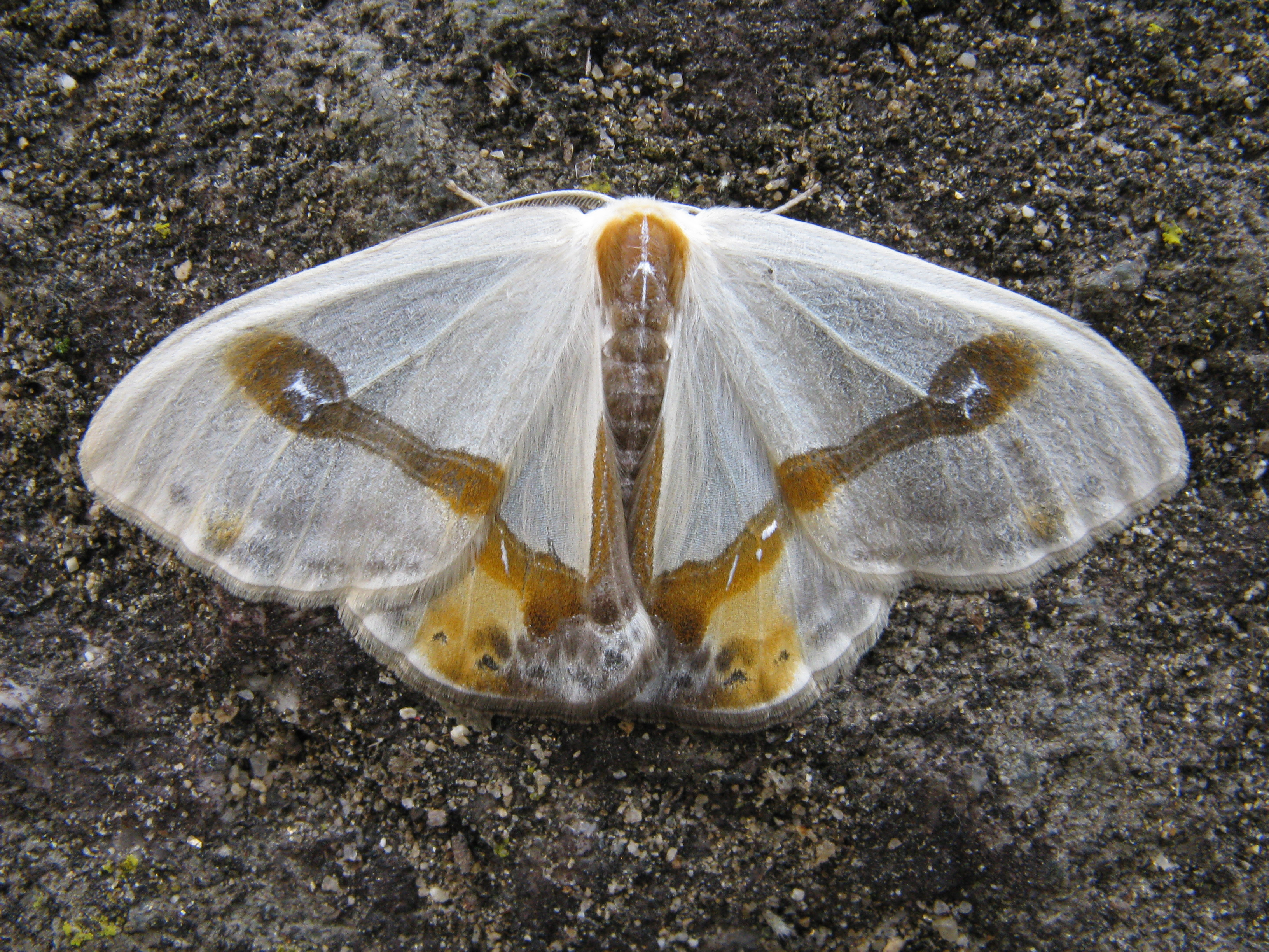 Scientific name Macrocilix mysticata watsoni